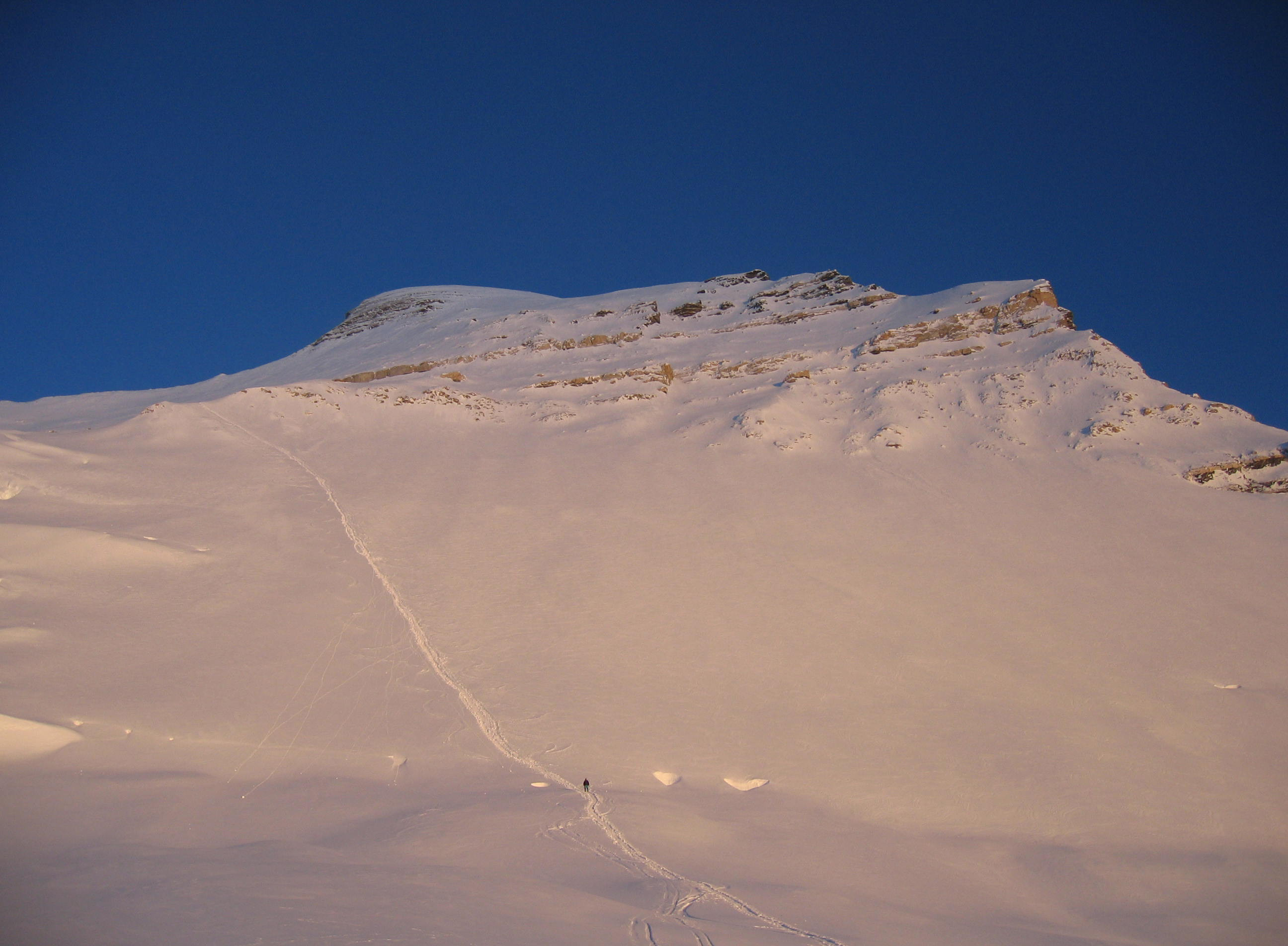 The upper slopes of Cho Oyu, showing the classic route up the mountain